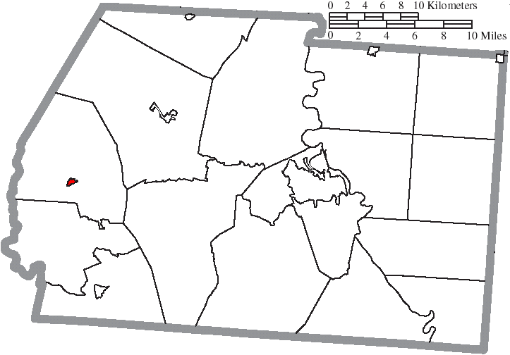 Map of the municipal and township boundaries of Ross County, Ohio, United States, as of the 2000 census, with the location of the village of South Salem highlighted. Township borders are shown only in unincorporated areas in order to differentiate incorporated and unincorporated areas more clearly.